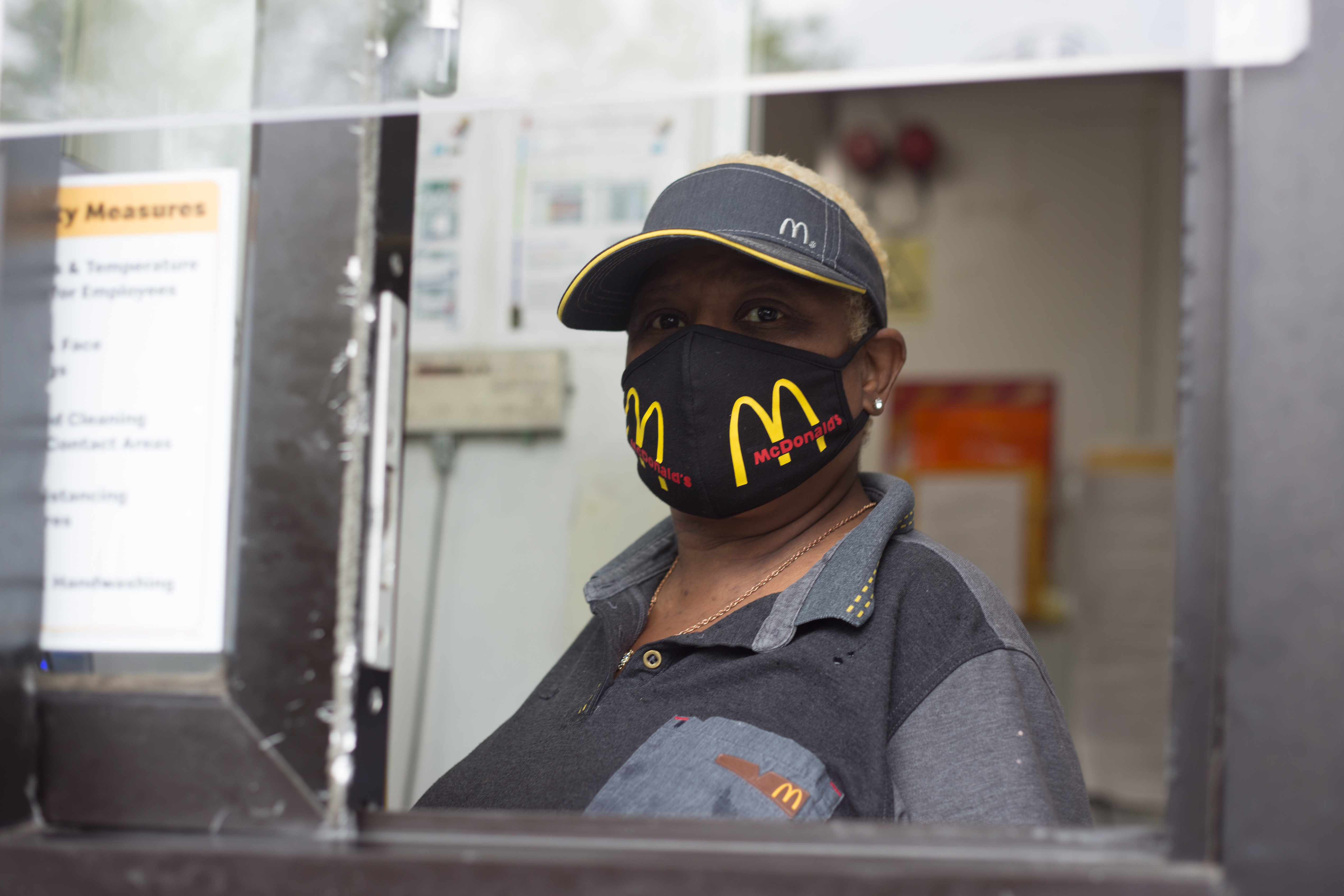 Essential Worker